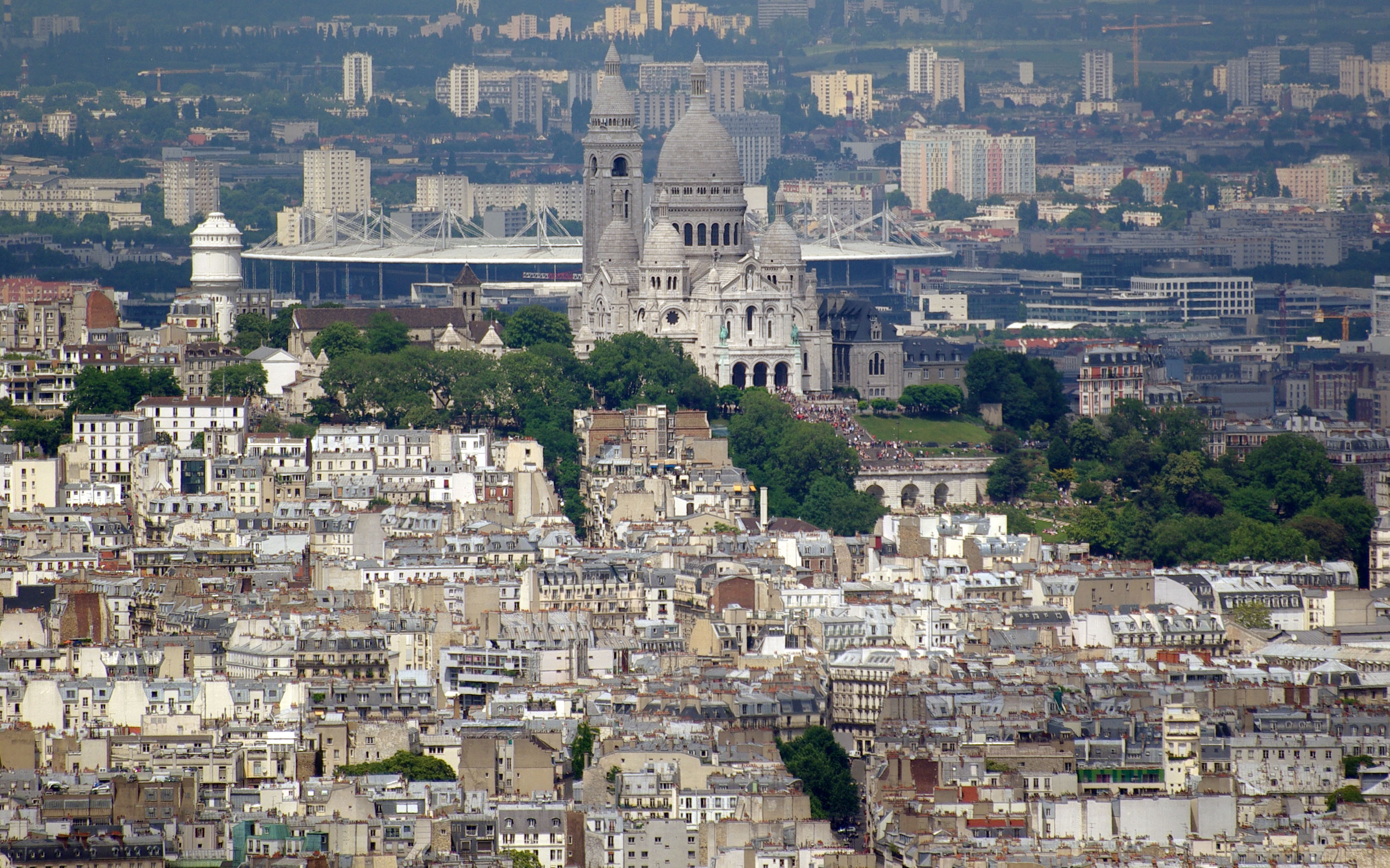 Sacré-Cœur church and stade de France behind